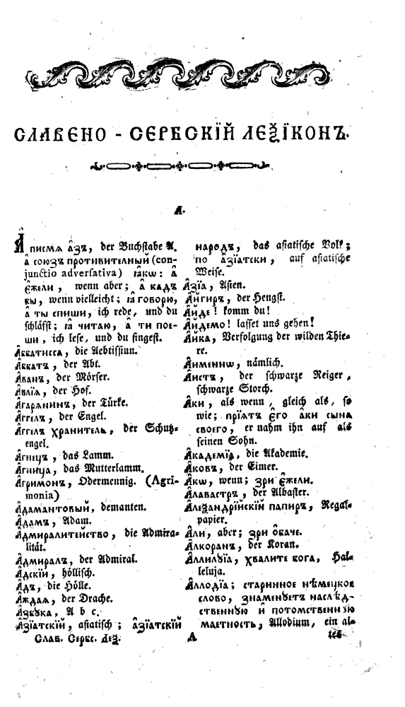 German–Serbian dictionary published in Vienna in 1791, part 2, page 1